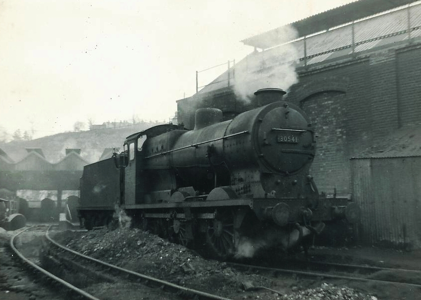 SR Maunsell Class "Q" 0-6-0 No.30541 gently simmers in rather weak sunshine at Guidlford Shed, awaiting its next turn of duty, 05/63. 30541 was fitted with a Lemaitre exhaust and wide diameter chimney by Bulleid - an example of Bulleid's rather eccentric thinking that he should go to the trouble and expense of fitting such a sophisticated exhaust system to a humble freight 0-6-0. Scanned photograph taken with Brownie 127 - hence doubtful quality. But I think it conveys an image of the then rapidly dying "steam" age and a certain "smoky" atmosphere and that can never be repeated.